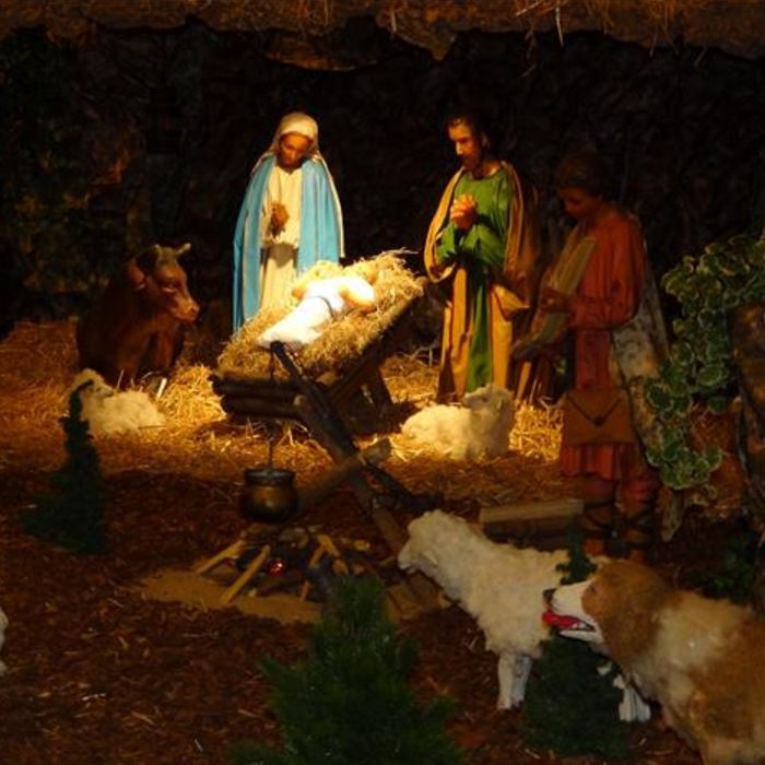 Dutch nativity scene made of wax statues on display in the Saint Joseph church in Leiden